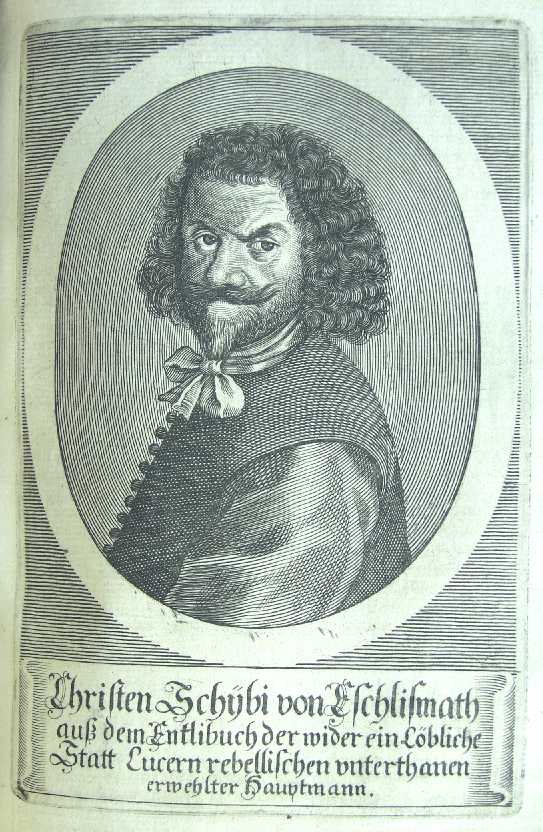 Porträt Christian Schibi. Frankfurt a.M.: Merians Erben, 1663. 175x118 mm (Theatrum Europaeum 1663, zwischen S. 386 und 387)